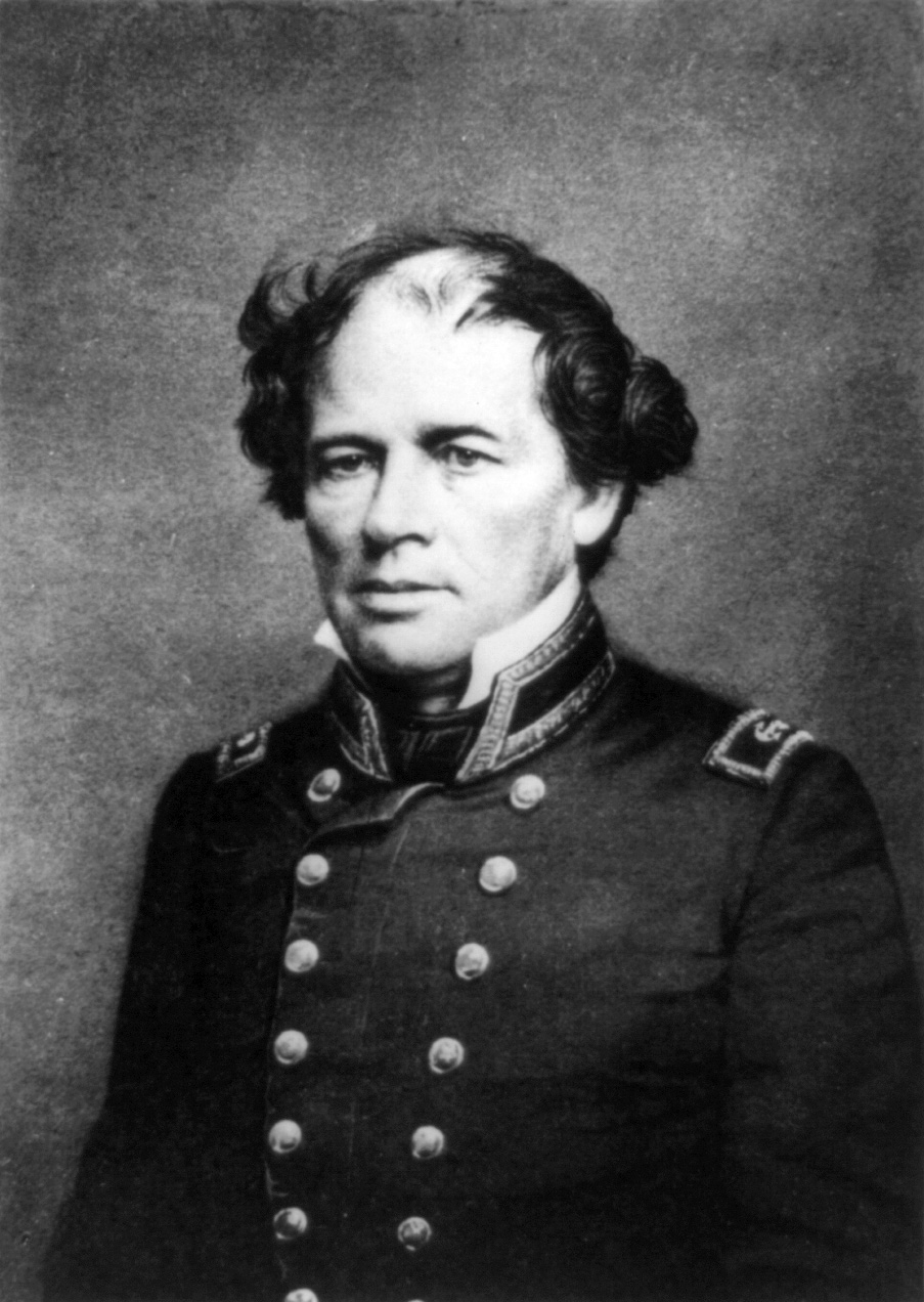 Matthew Fontaine Maury as a U.S. Navy Lieutenant. Photo taken shortly before Lieut. Matthew Fontaine Maury, U.S.N., left for Brussels, Belgium as the United States representative who launched the International Marine Conference of Nations. (Source: Matthew Fontaine Maury, Scientist of the Sea by Frances Leigh Williams (1969), p.290)